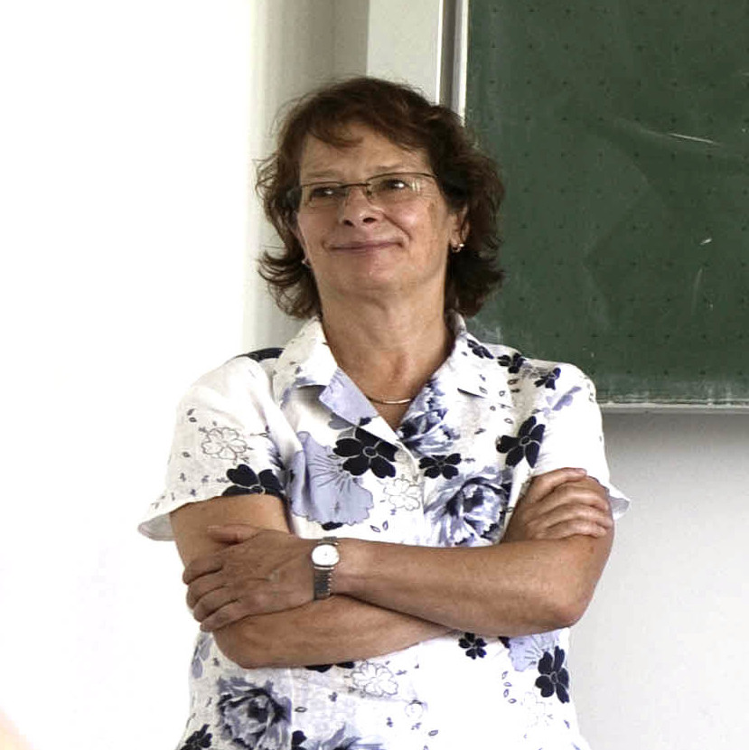 The german mathematician Prof. Dr. Claudia Klüppelberg with her collegue Dr. Christian Bluhm during a lecture about the financial crisis and stochastics at the Technische Universität München.